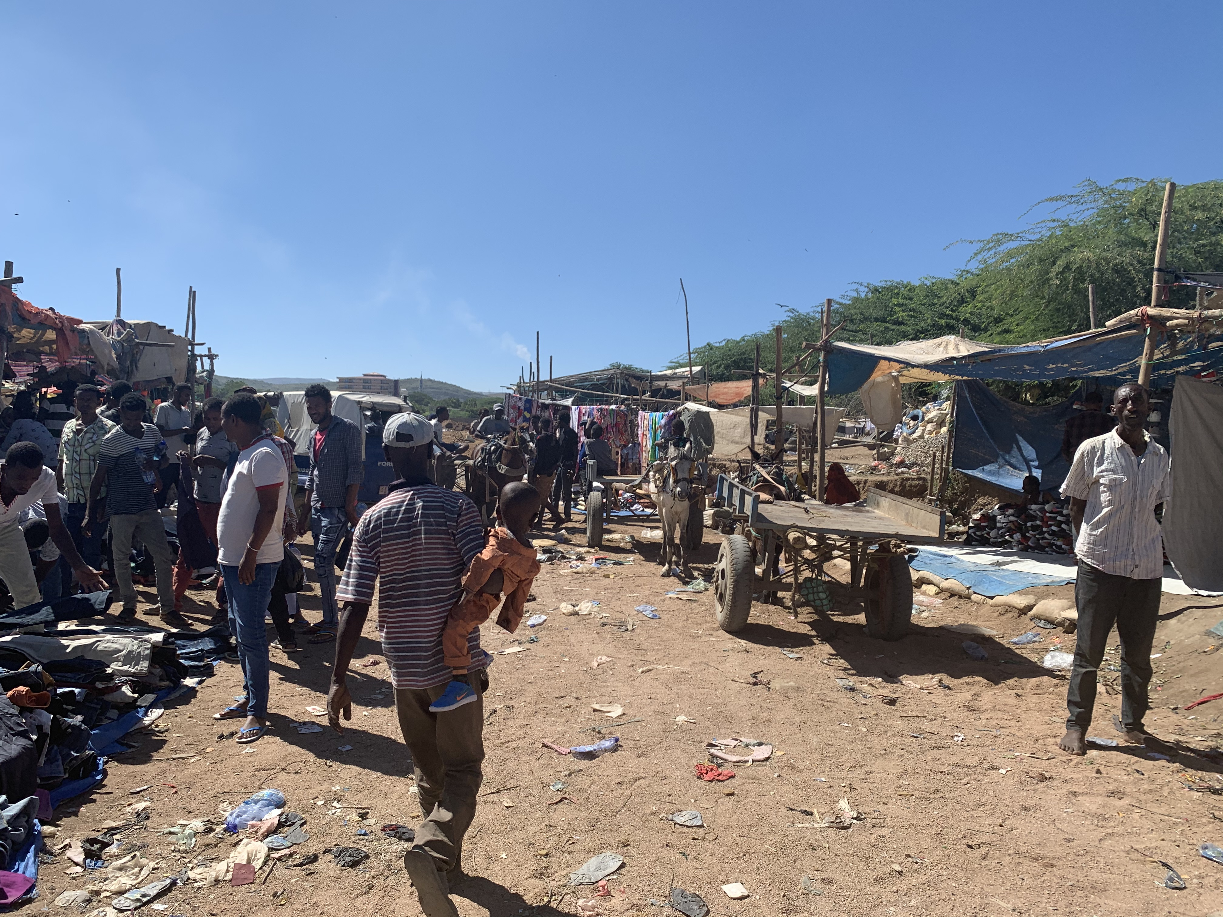 Carts used to carry goods to Ashawa market in Dire Dawa, Ethiopia This is an image with the theme "Africa on the Move or Transport" from: Ethiopia